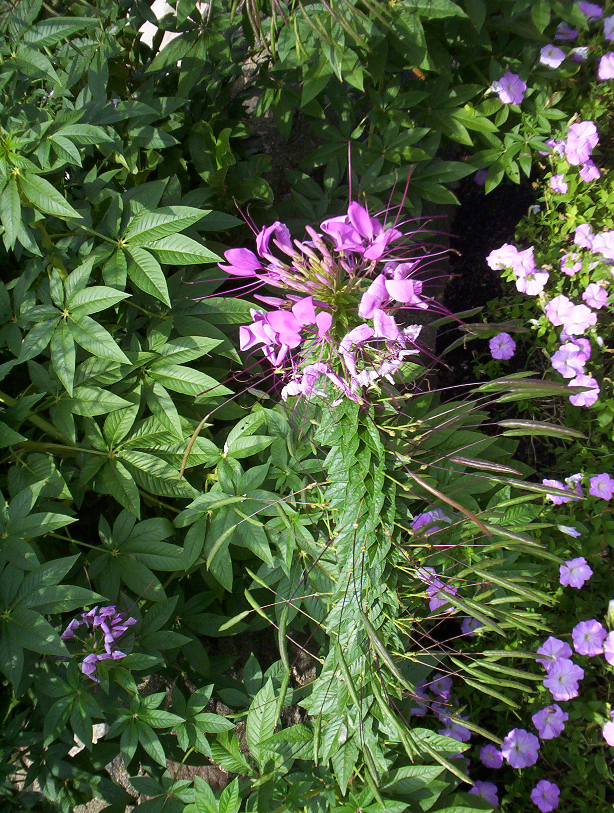 Cleome hassleriana (syn. Cleome spinosa, common names Spider Flower, Spider Legs, and Grandfather's Whiskers), taken by myself at the Boerner Botanical Gardens, in Hales Corners, Wisconsin.